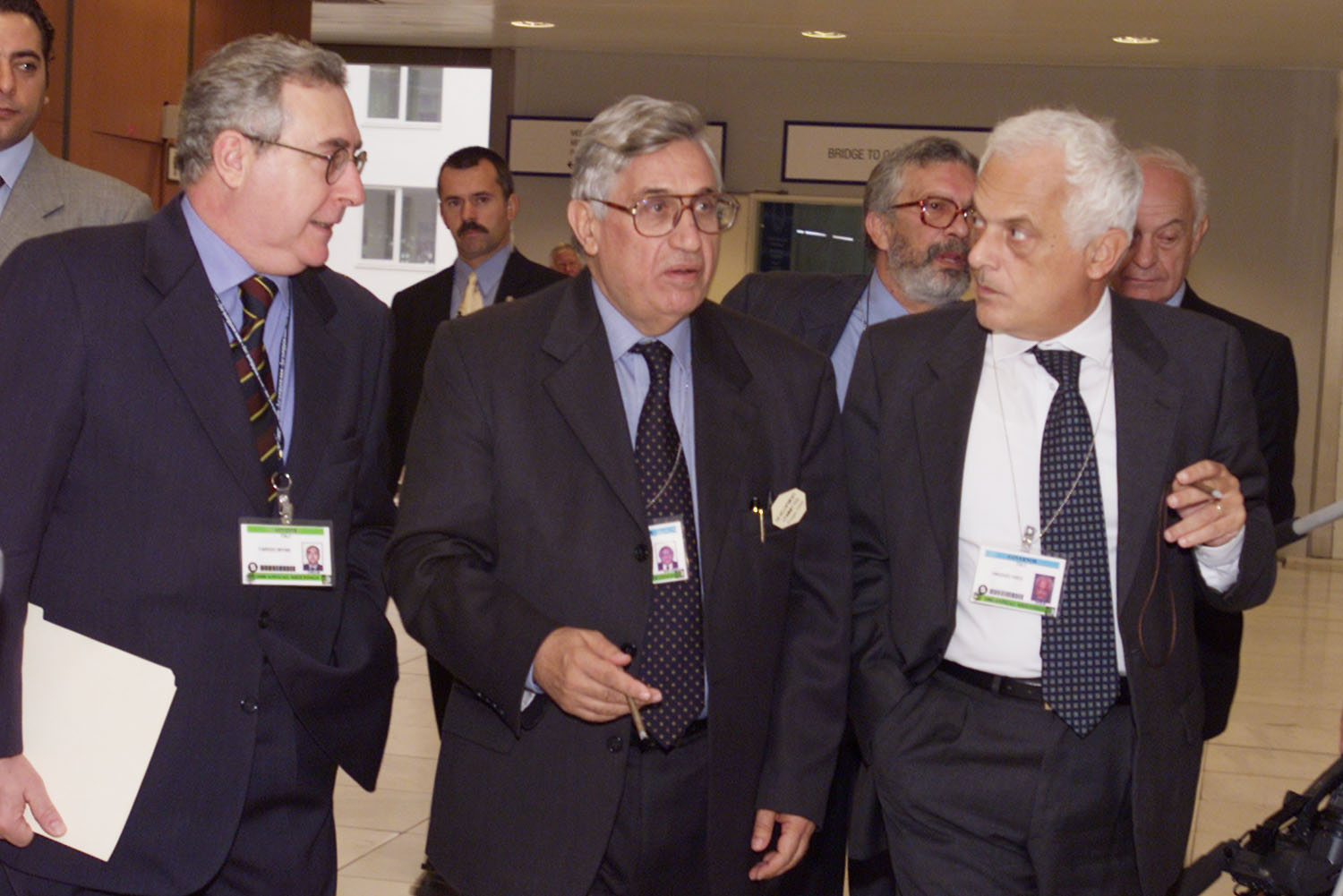 Antonio Fazio, Governor of Banca d'Italia, center, and Vincenzo Visco, Italian Minister of Treasury, right, at the Prague Congress Centre.